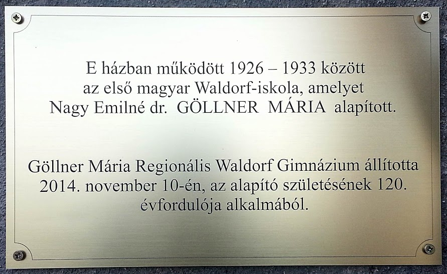 The first Hungarian Waldorf school commemorative plaque in Budapest District XII, Gaál József Street No 21.